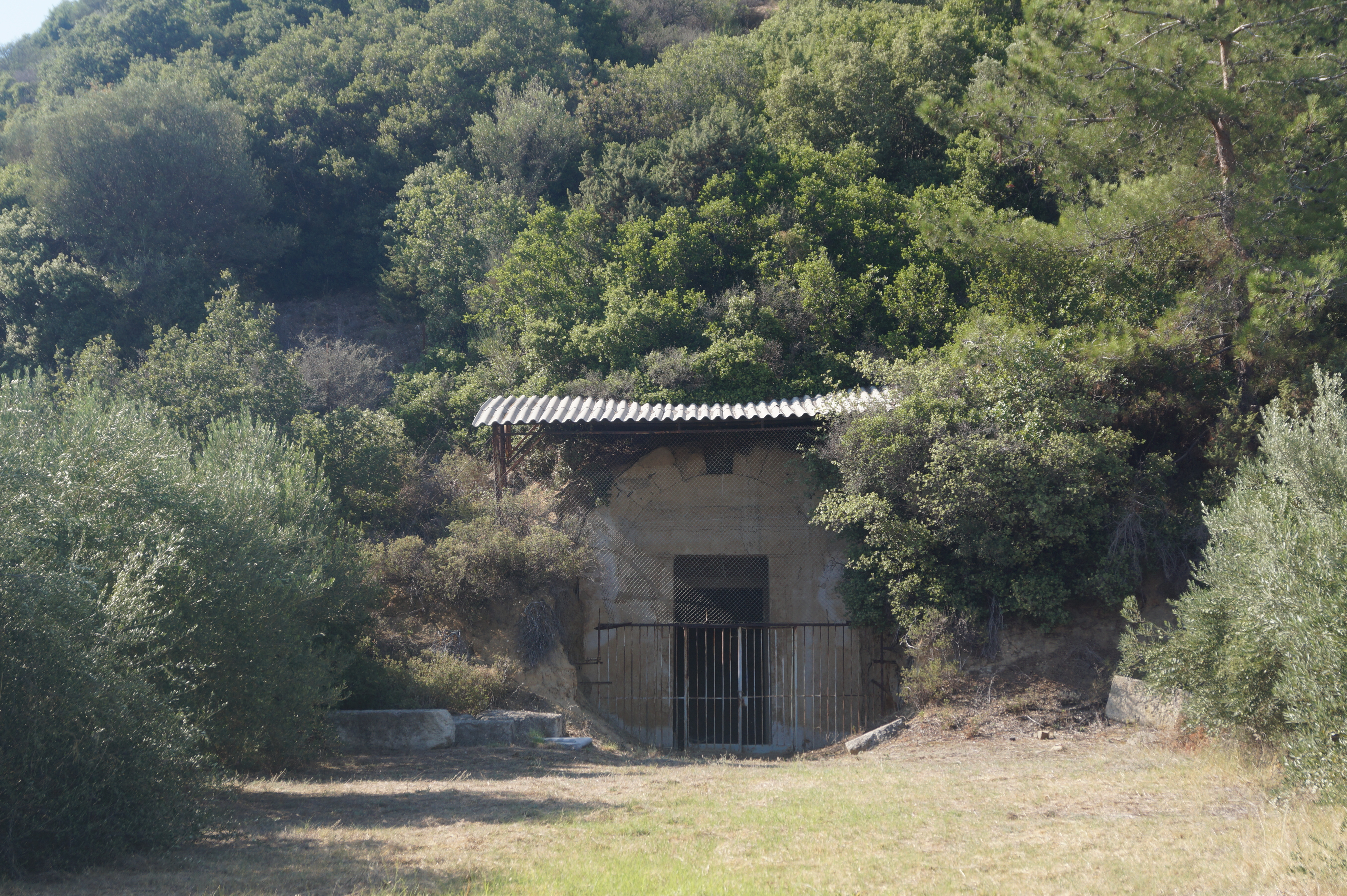 Sykia, Makedonia, Greece: Entrance of the macedonian tomb 2 east of Sykia.